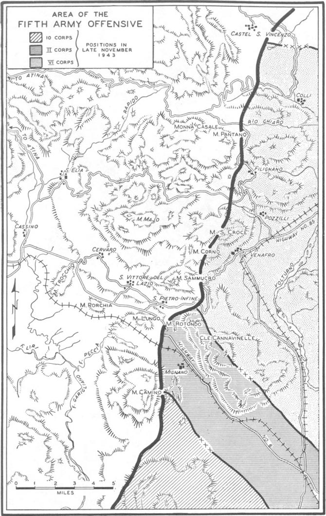 Map of Area of US 5th Army offensive around Mignano, Italy in autumn 1943